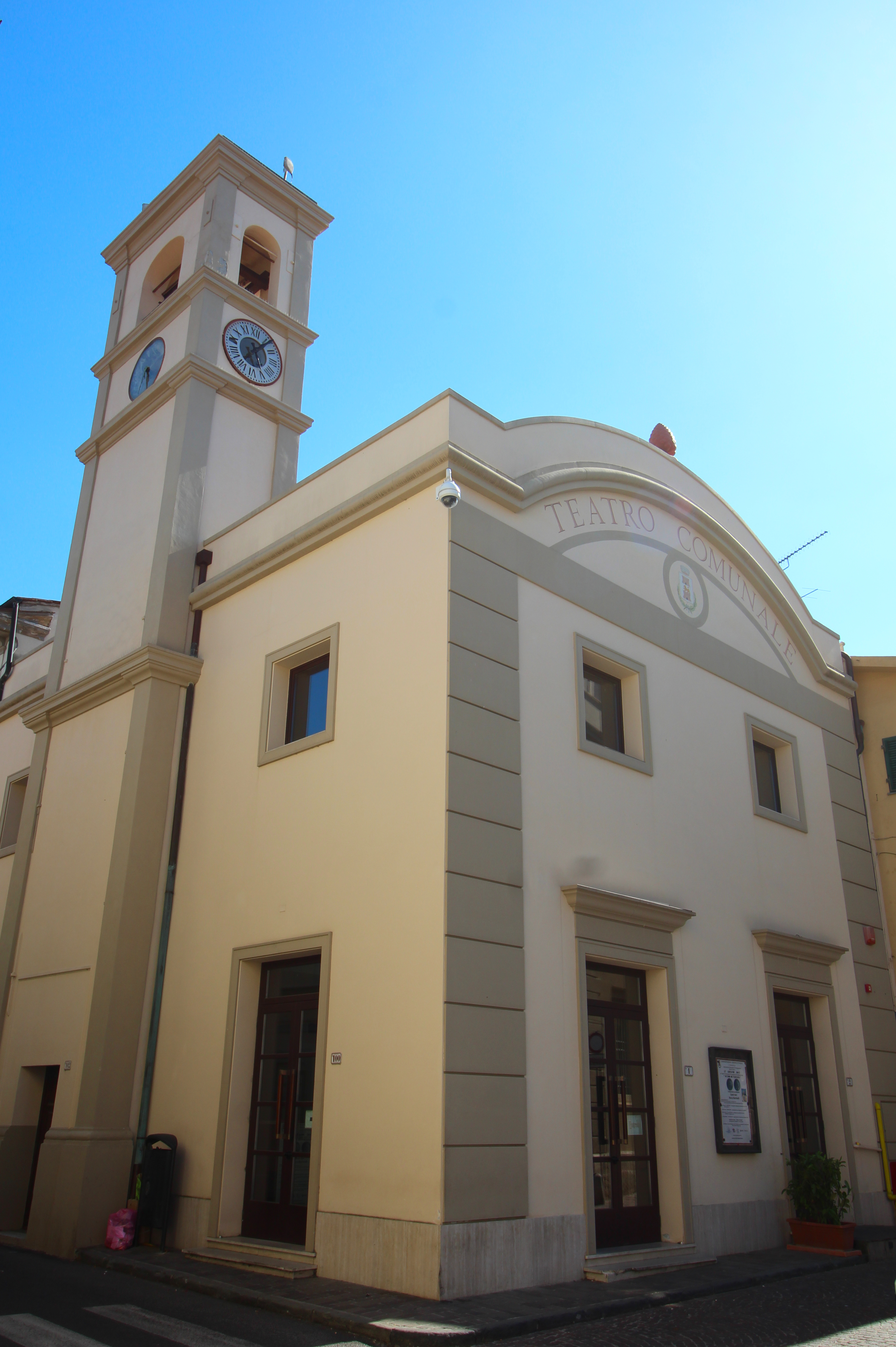 Teatro comunale di Fauglia, Province of Pisa, Tuscany, Italy